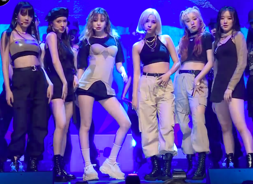 (G)I-dle at 'Uh-Oh' Showcase on June 26, 2019.